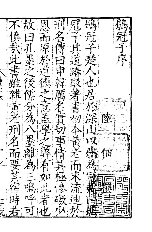 First page of Heguanzi (鶡冠子) edition by Lu Dian (陸佃, 1042-1102), reprinted in 1772-1782 Sibu Congkan (四部叢刊) encyclopedia